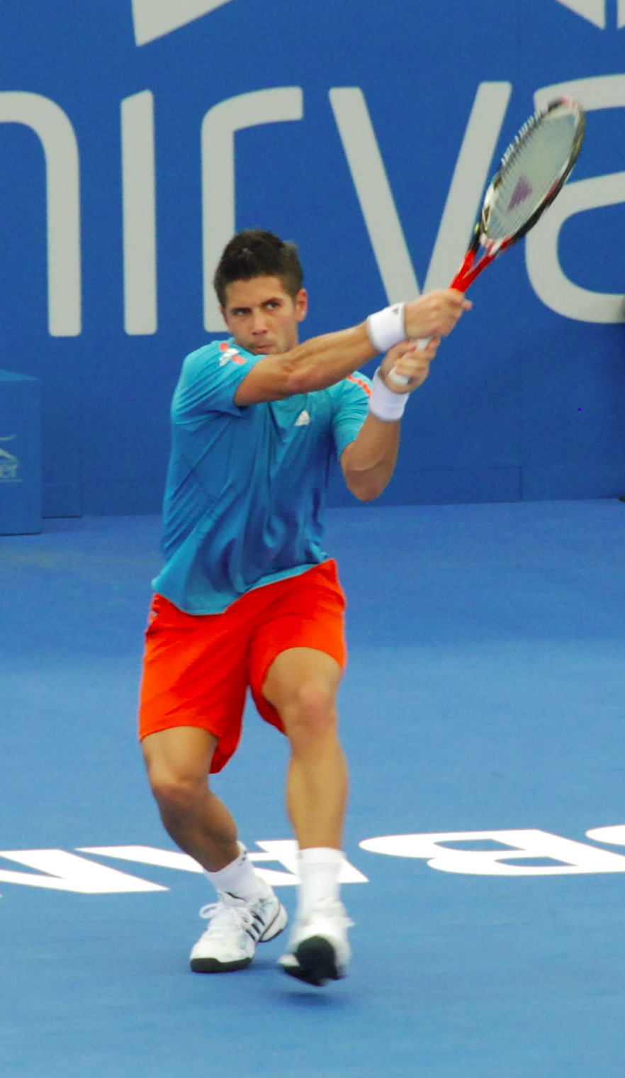 Fernando Verdasco at 2009 Brisbane International, Brisbane, Australia.